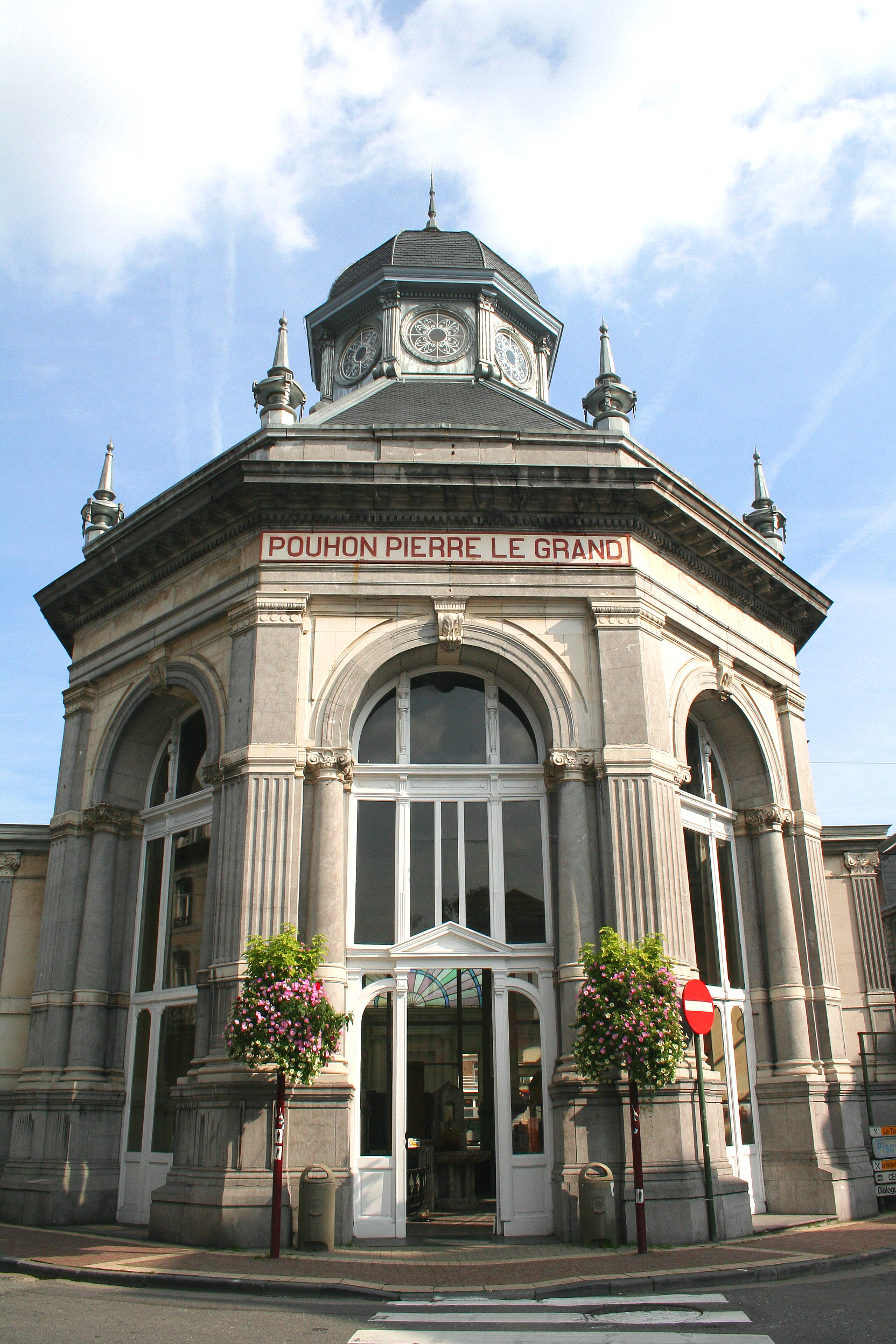 Spa (Belgium), building of the Tzar Peter the Great's « Pouhon » (spring).